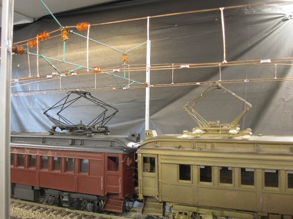 PRR-style compound catenary system being installed on Cherry Valley Model Railroad, Merchantville NJ.